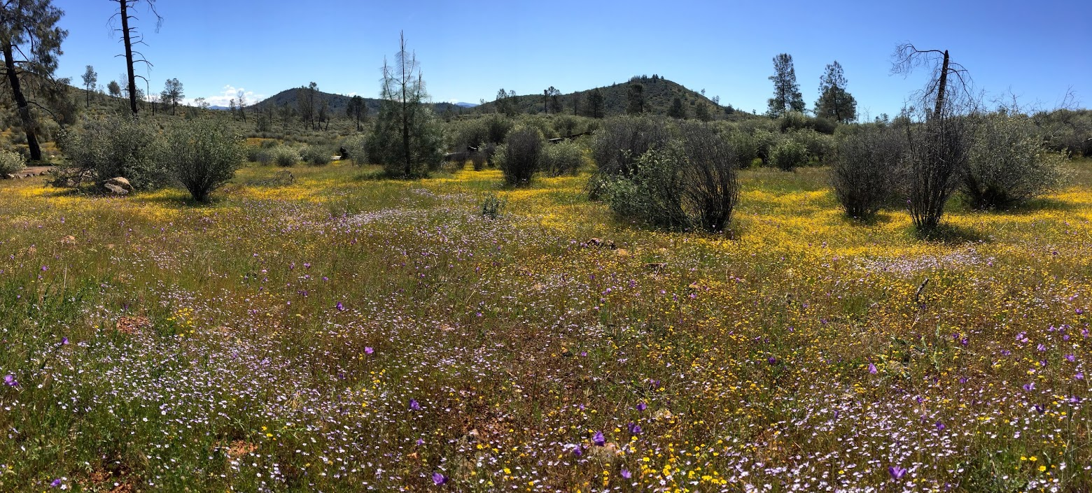 The Red Hills is a region of 7,100 acres of public land located near the intersection of State Highways 49 and 120, just south of the historic town of Chinese Camp in Tuolumne County. The Red Hills are noticeably different from the surrounding countryside. The serpentine-based soils in the area support a unique assemblage of plant species. Included among the thorny buckbrush and foothill pine is a rich variety of annual wildflowers, which put on a showy display every spring. In the Red Hills buckbrush and other shrubs provide browse and seeds for small populations of mammals, including mule deer, jackrabbits and rodents. Coyotes, bobcats and fox can also be found in the Red Hills. Approximately 88 bird species have been observed in the Red Hills. Some common species include mourning dove, acorn woodpecker, ash-throated flycatcher, scrub jay, wrentit, plain titmouse, bushtit, Bewick's wren and house finch. Valley quail and mourning doves are the major game birds in the Red Hills. An abundant insect population supports insectivorous birds including western kingbirds, ash- throated flycatcher, tree swallows, barn swallows, black phoebes and others. Raptors include the red-tailed hawk, Cooper's hawk, prairie falcon and great horned owl. Fish-eating birds seen in the Red Hills include the belted kingfisher and great blue heron. Roadrunners can also be found. Four sensitive species of animals are known from the Red Hills. Wintering bald eagles roost along the shores of Don Pedro Reservoir and have been observed where Six Bit Gulch enters the lake. As many as 20 bald eagles have been sighted during the winter on the shores of Don Pedro Reservoir, roosting in stands of foothill pines. Photo by Patrick Congdon, BLM volunteer.